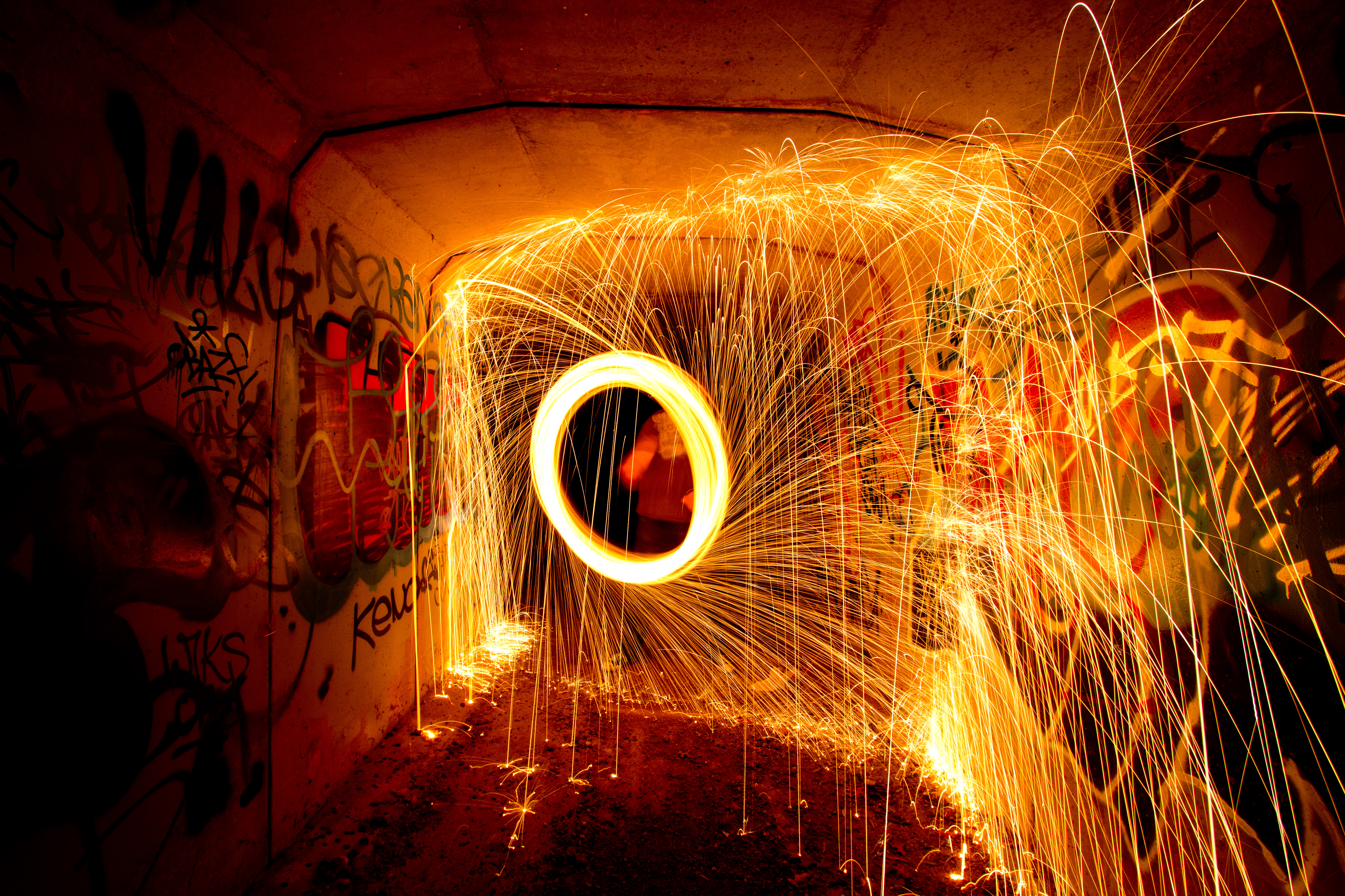 Steel Wool spinning, Ballarat East, 2012